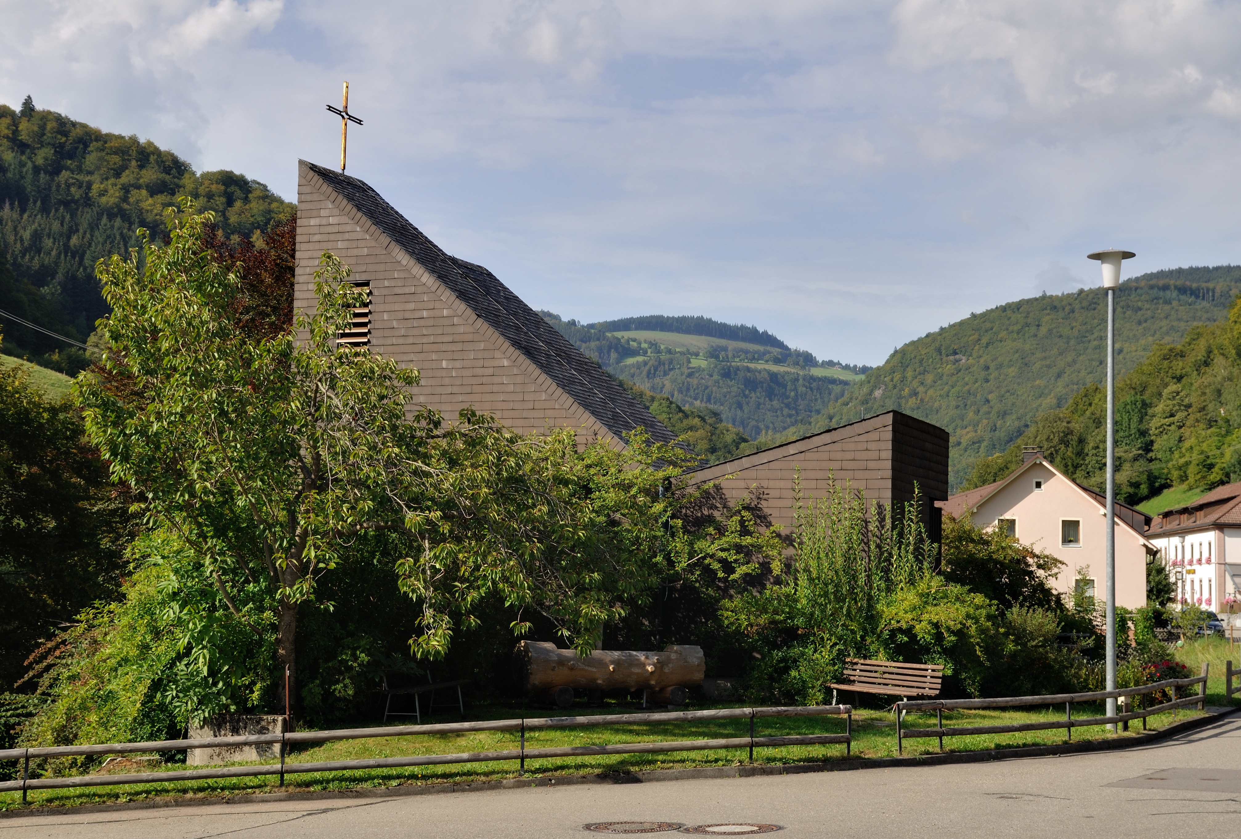 Schlechtnau: Regina Coeli Church